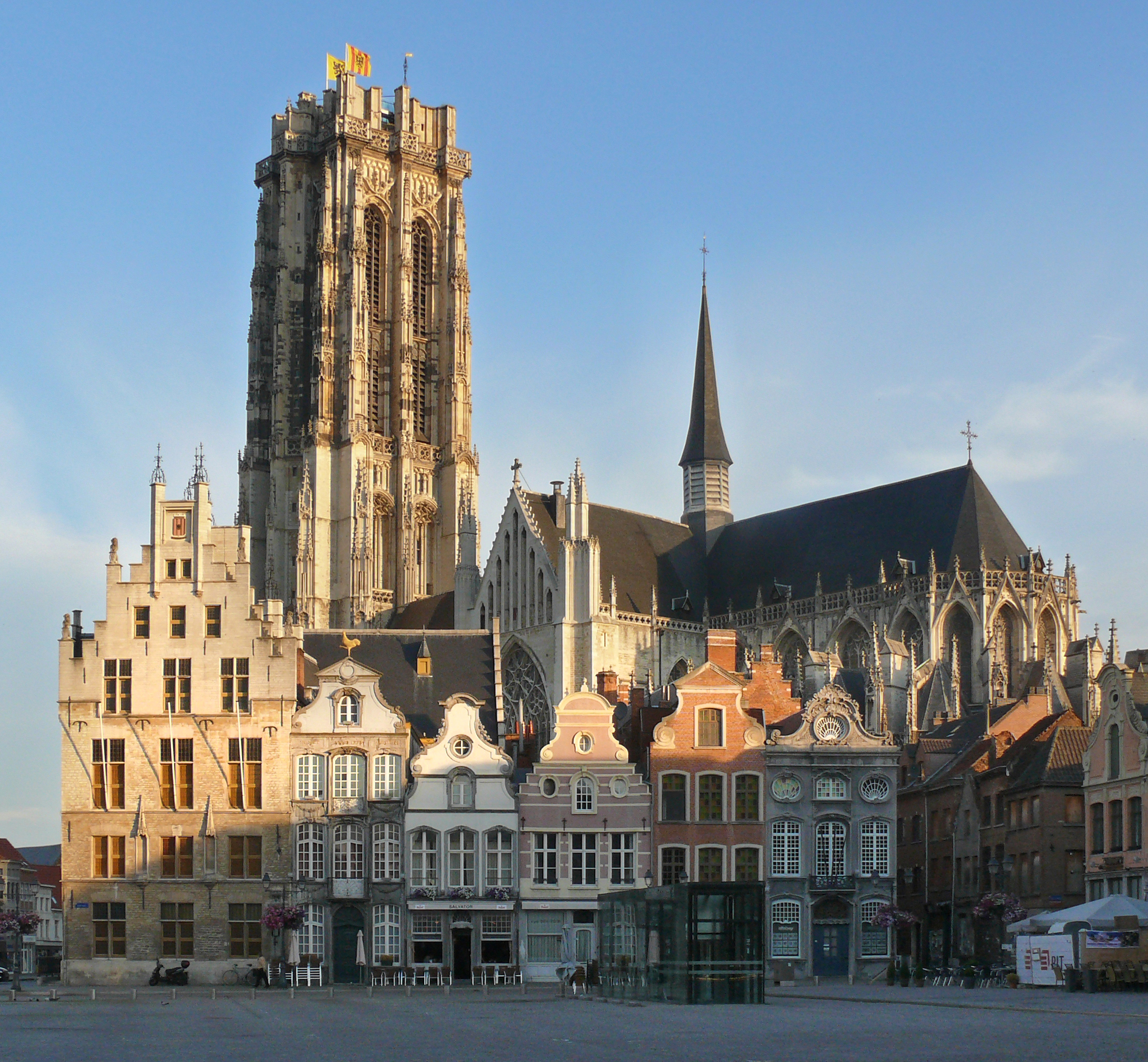 The Town Square of Mechelen with St-Rumbold's Cathedral in the background. The flat-topped silhouette of the St-Rumbold’s Cathedral’s tower is easily recognizable and dominates the surroundings.